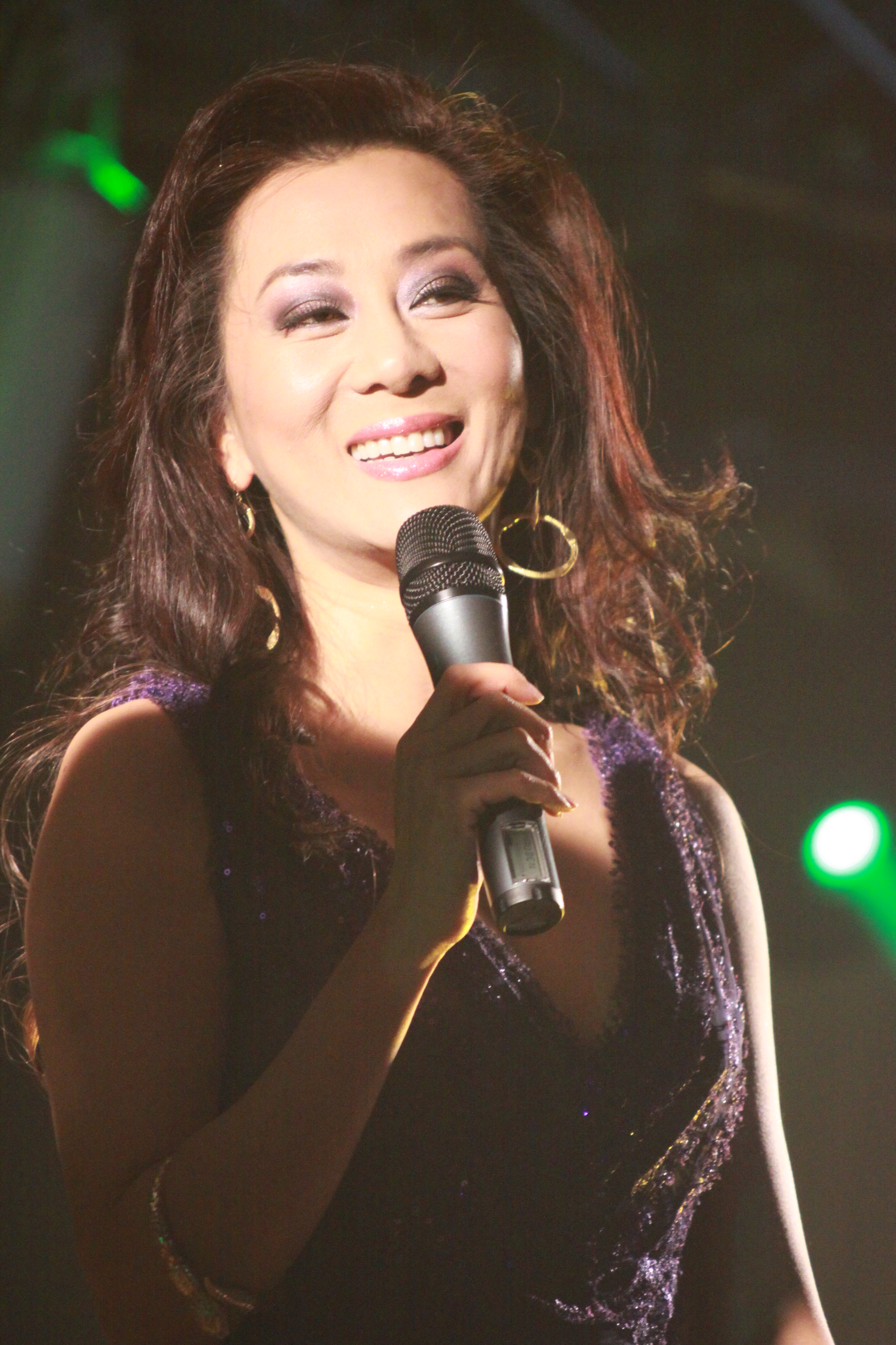 Vietnamese artist, MC, lawyer